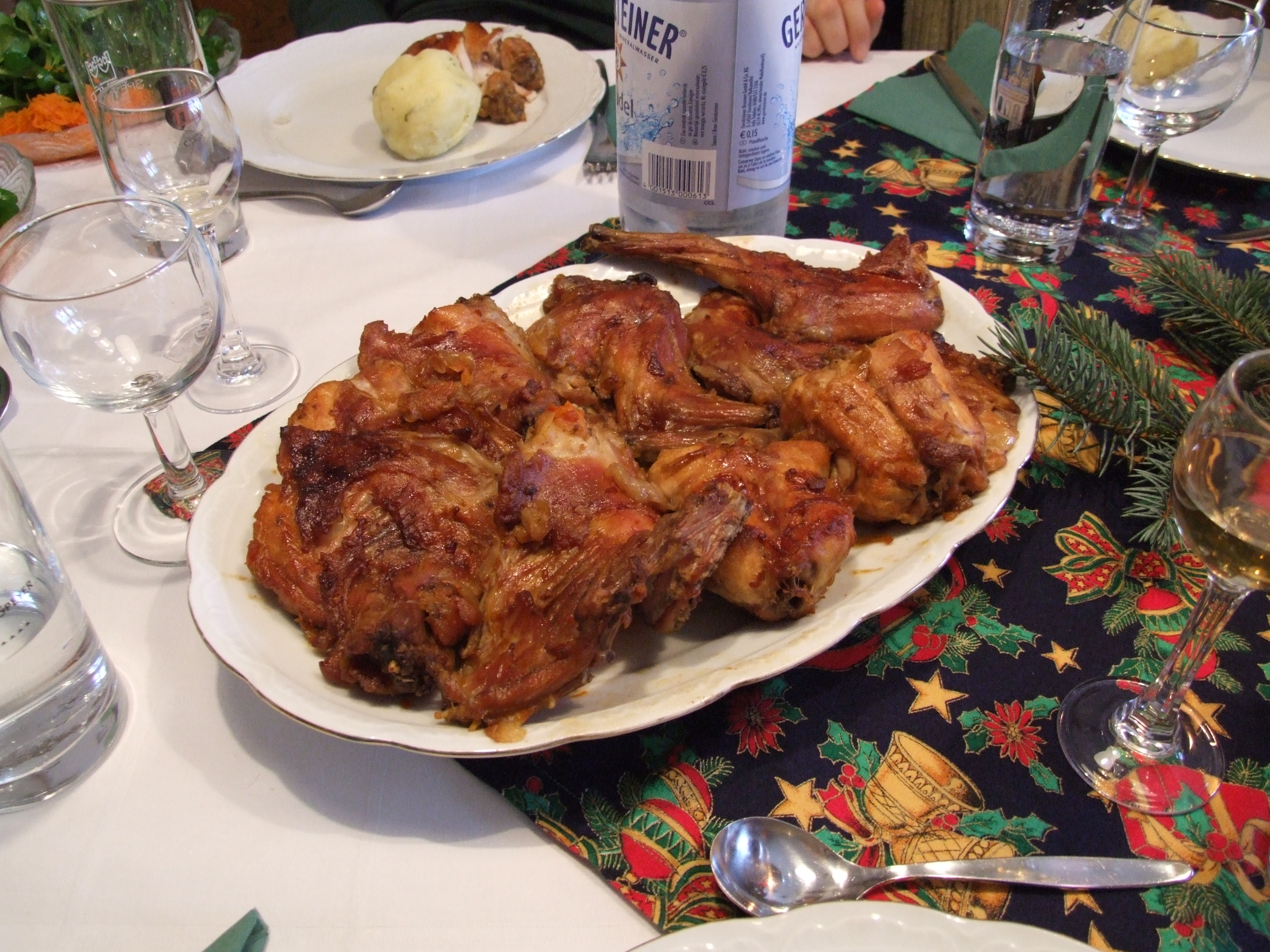 Rabbit roast, Christmas dinner, prepared by Hilde Ableiter